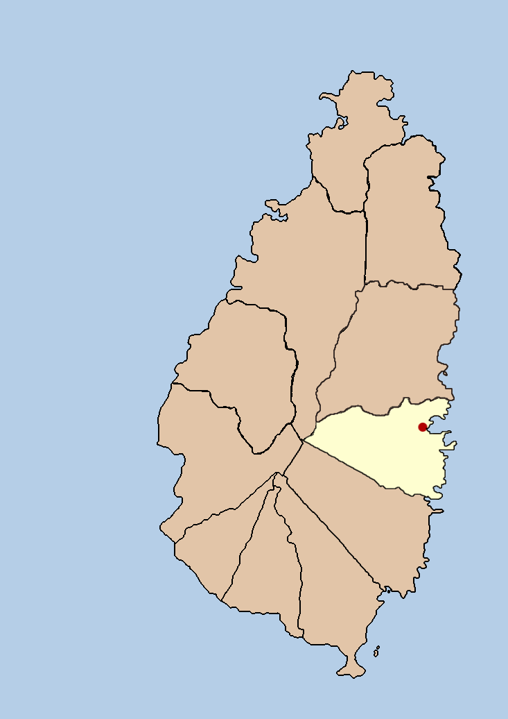 this is a political map showing the quarter of Praslin on the island nation of Santa Lucia. I created it myself by using the GIMP to trace a public domain map that i found at the Perry-Castañeda Library Map Collection.